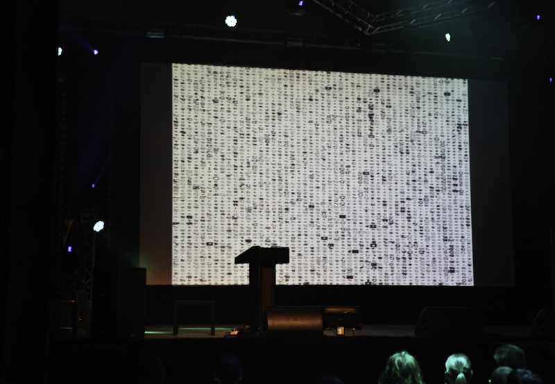 Aaron Koblin - The Sheep Market at STRP